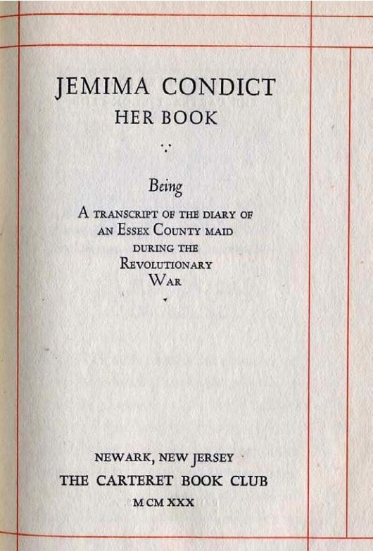 Inside cover of: Condict, Jemima (1930), Her Book, Being a transcript of the diary of an Essex County maid during the Revolutionary War, Newark NJ: The Carteret Book Club, 74 pp.